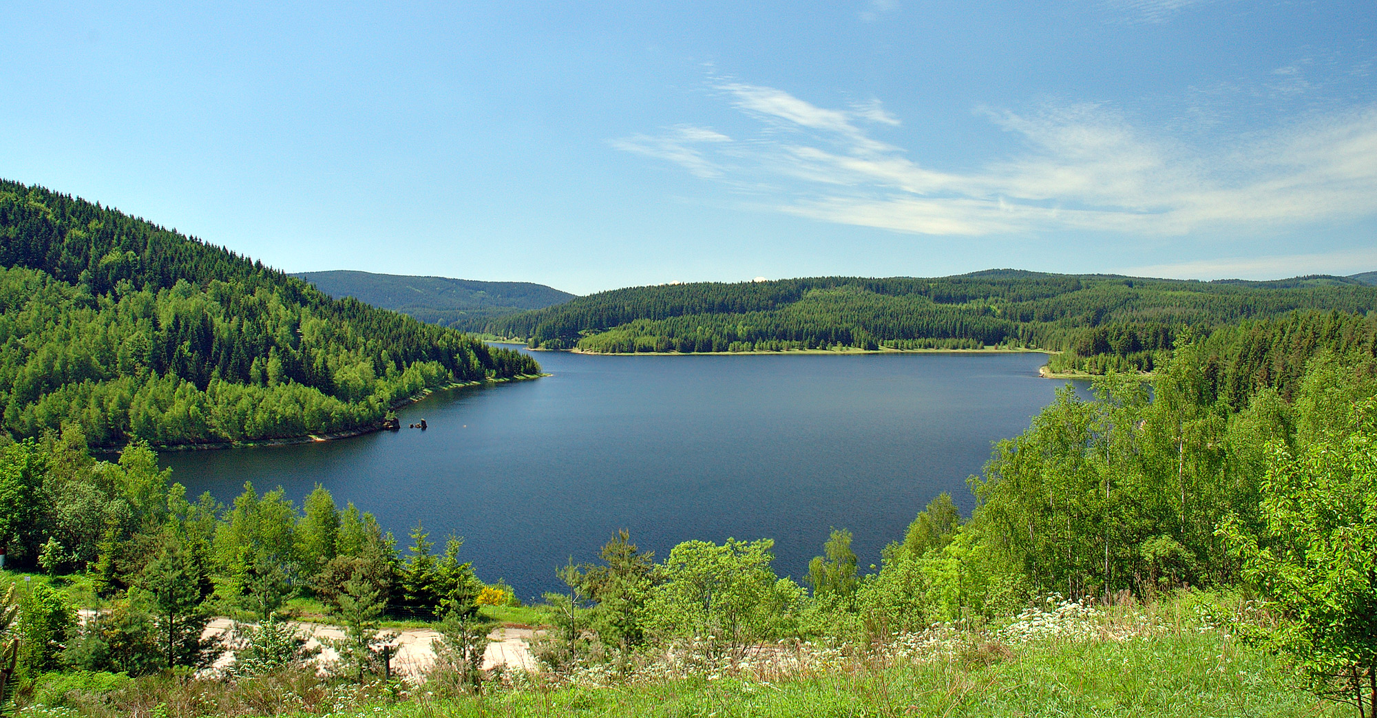 This image shows reservoir "Eibenstock" (Saxony, Germany).